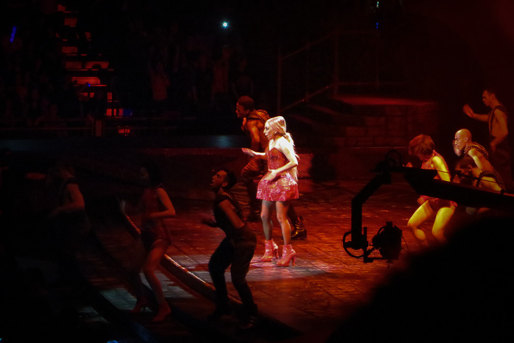 Gaga performing Americano at the Born This Way Ball